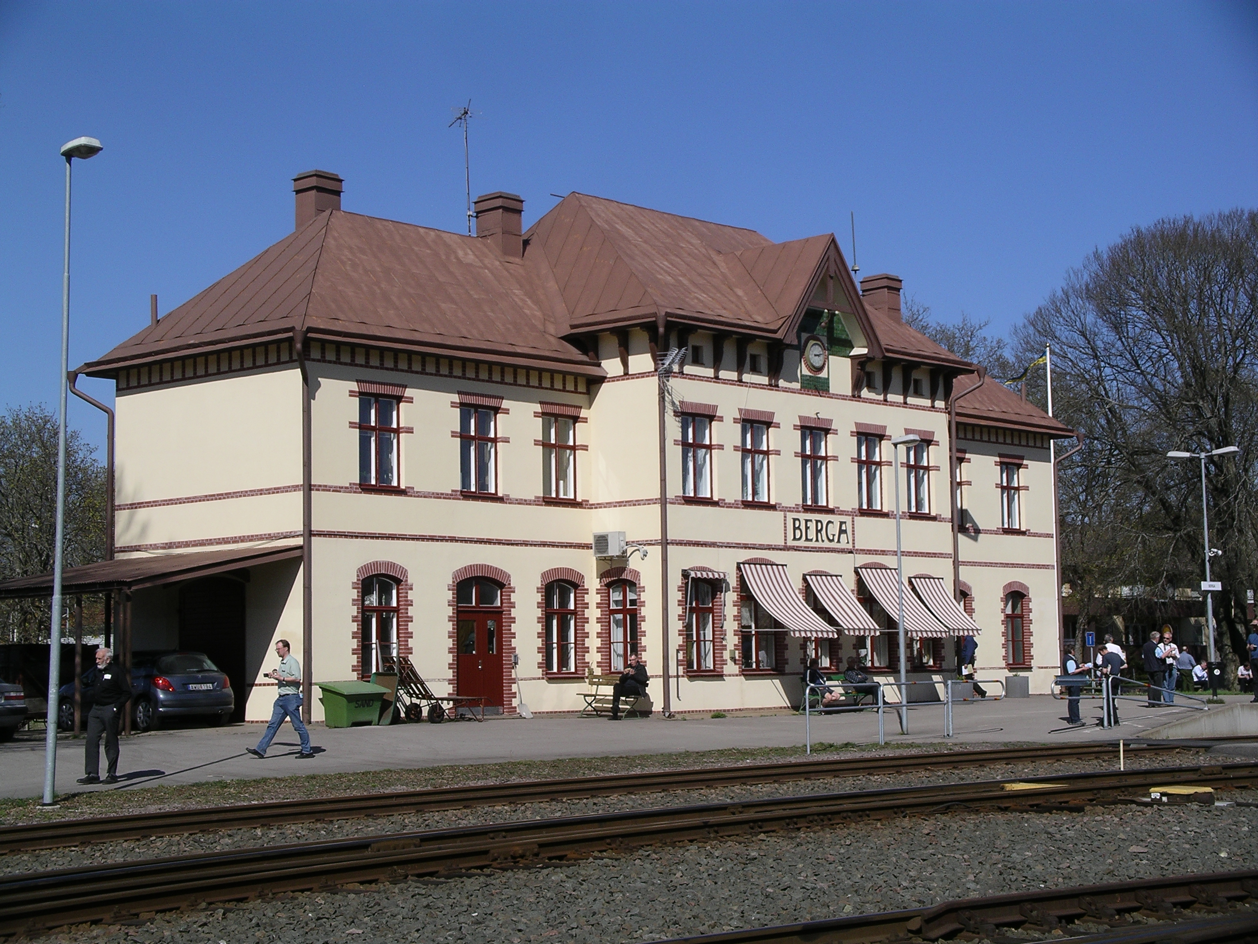 Railway station Berga in Sweden